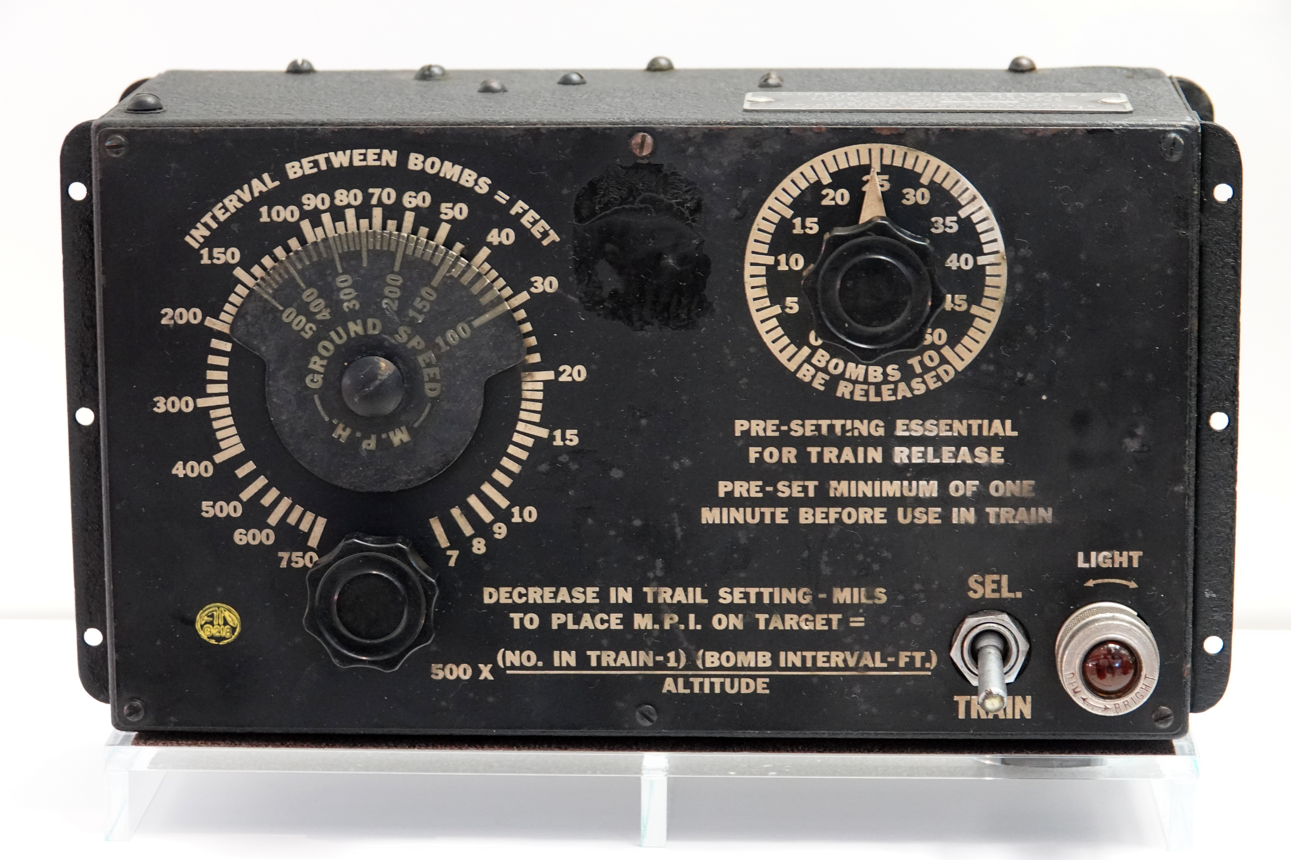 Picture of a J.P. Seeburg B-2 Intervalometer. American bombardiers used this device to set the spacing and number of bombs dropped for each salvo. Picture taken at the National Air and Space Museum's Steven F. Udvar-Hazy Center in Chantilly, Virginia, USA.